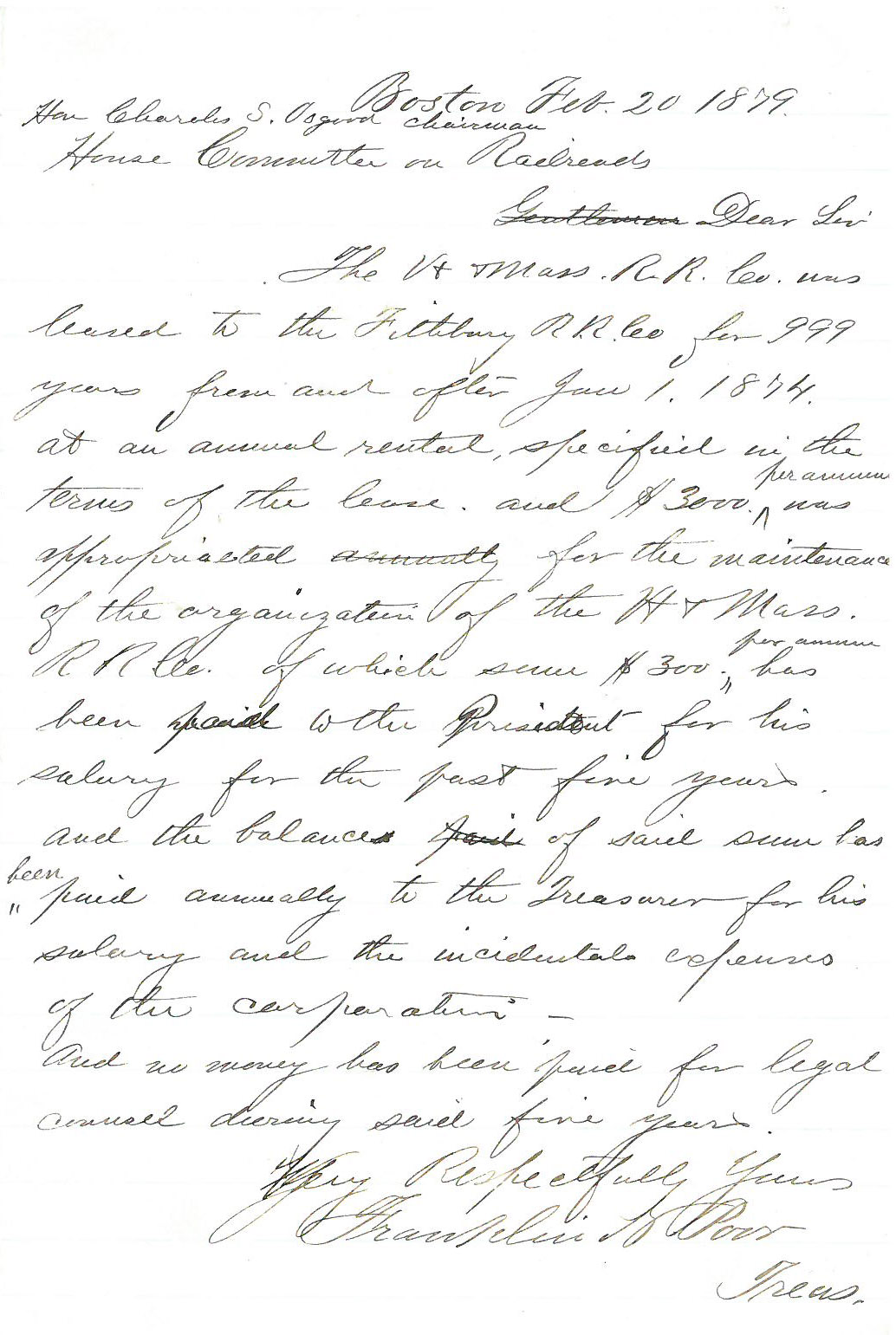 This is a draft of a letter from Franklin Poor, treasurer of Vermont and Massachusetts Railway to Hon. Charles S. Osgood, Chairman of the House Committee on Railroads in the House of Representatives for the Commonwealth of Massachusetts (Salem) in 1879. It explains how the Vt. & Mass RR Co. was leased for 999 years to the Fitchburg Railroad beginning in Jan 1, 1874. It also lists the amounts set aside in the lease for maintenance of the organization and salaries for the President and Treasurer of VT and Mass RR. This is from a set of Franklin Poor's papers in the collection of .